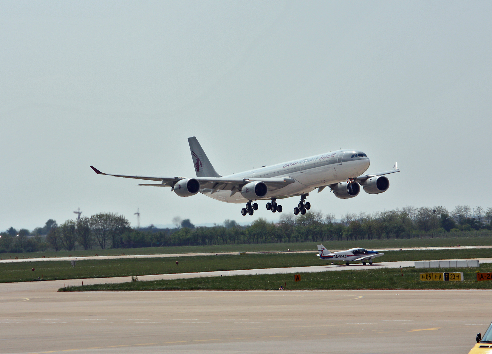 VIP flight Qatar Airways on short final to Rwy 05 on Zagreb airport.